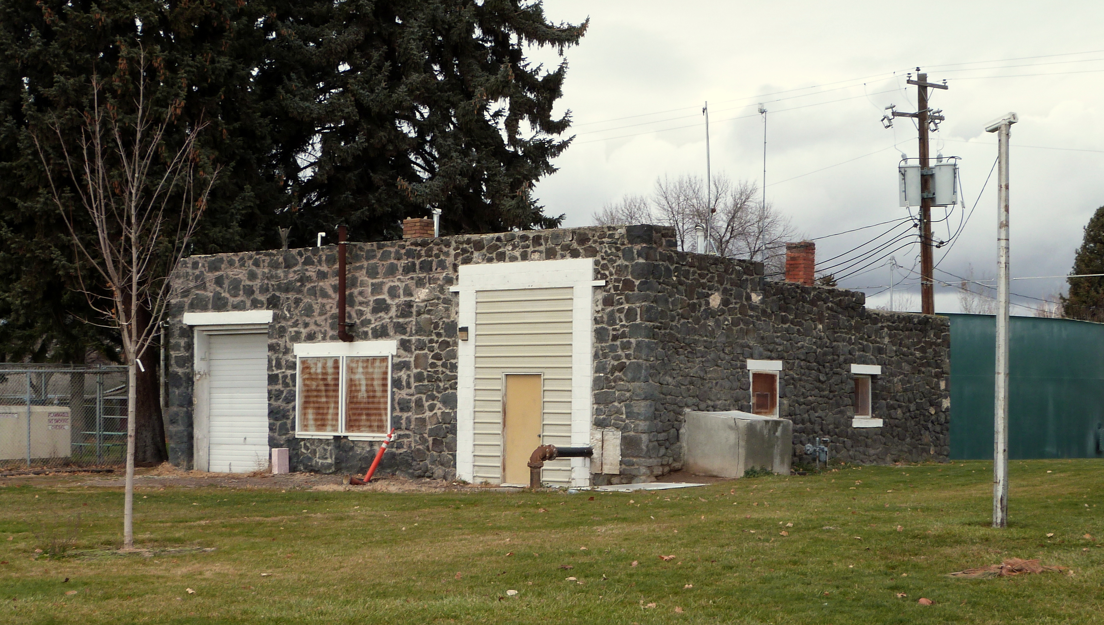 The historic Jerome City Pump House (built 1922), located on the 600 block of East B Street in Jerome, Idaho, United States, is listed on the US National Register of Historic Places.